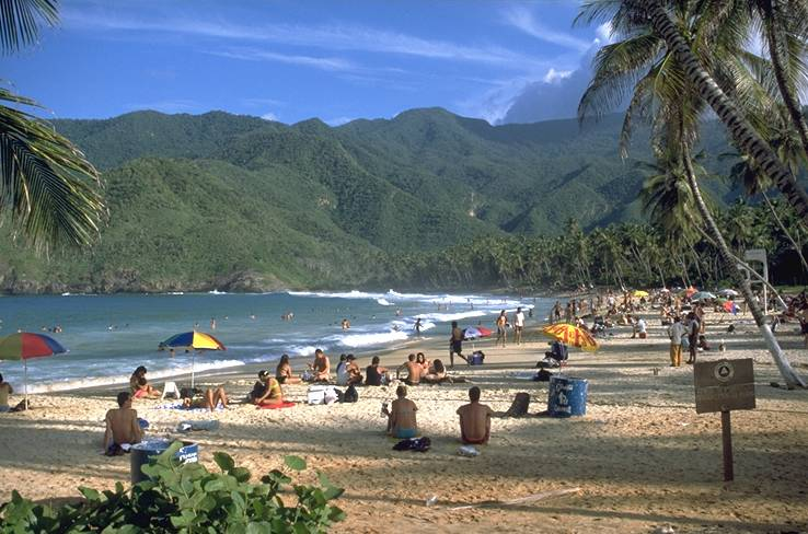 Choroni Beach, near Maracay, Venezuela